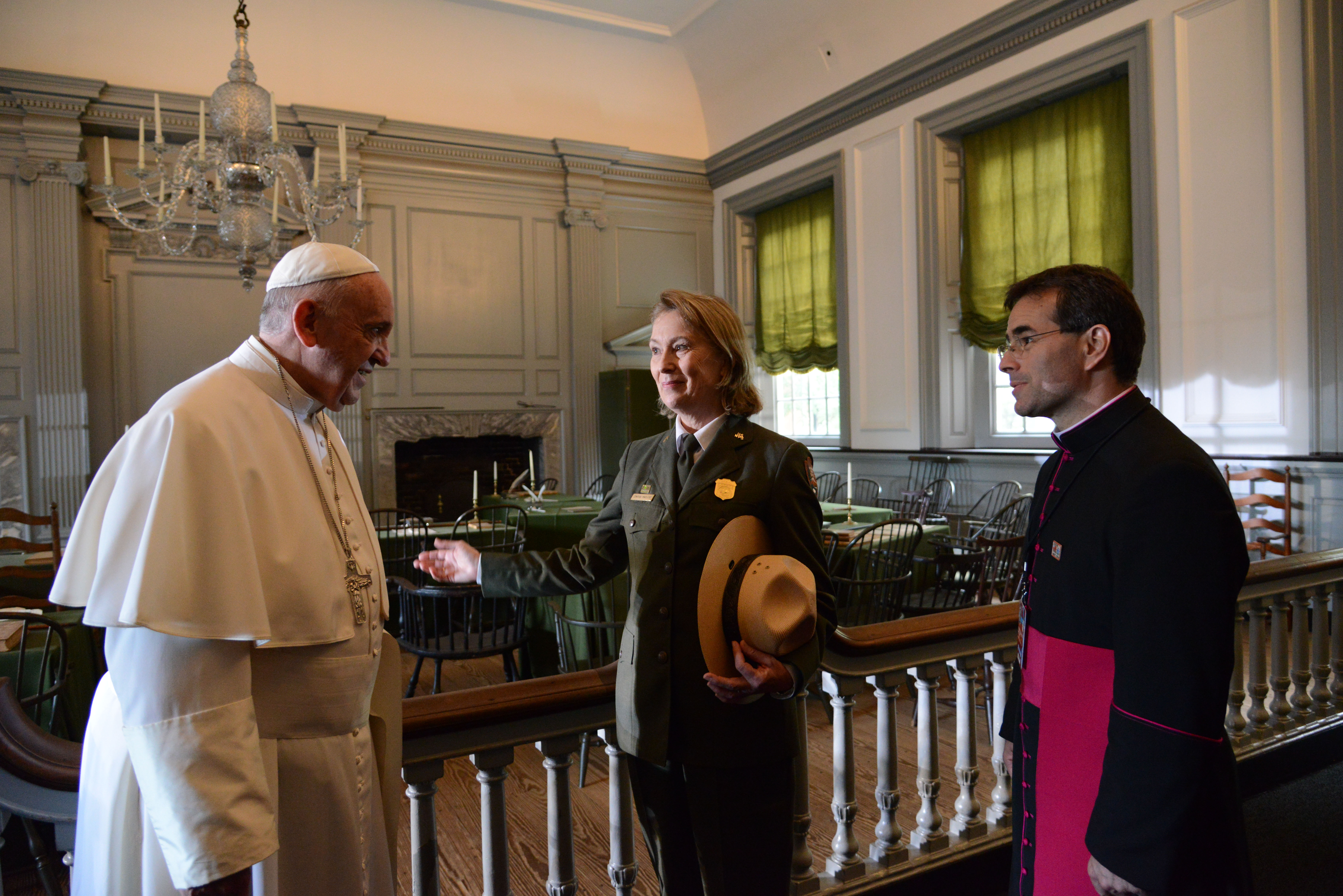 Secretary Jewell's Remarks as Part of His Holiness Pope Francis’ Visit to Independence Hall. Credit Photos Tami A. Heilemann